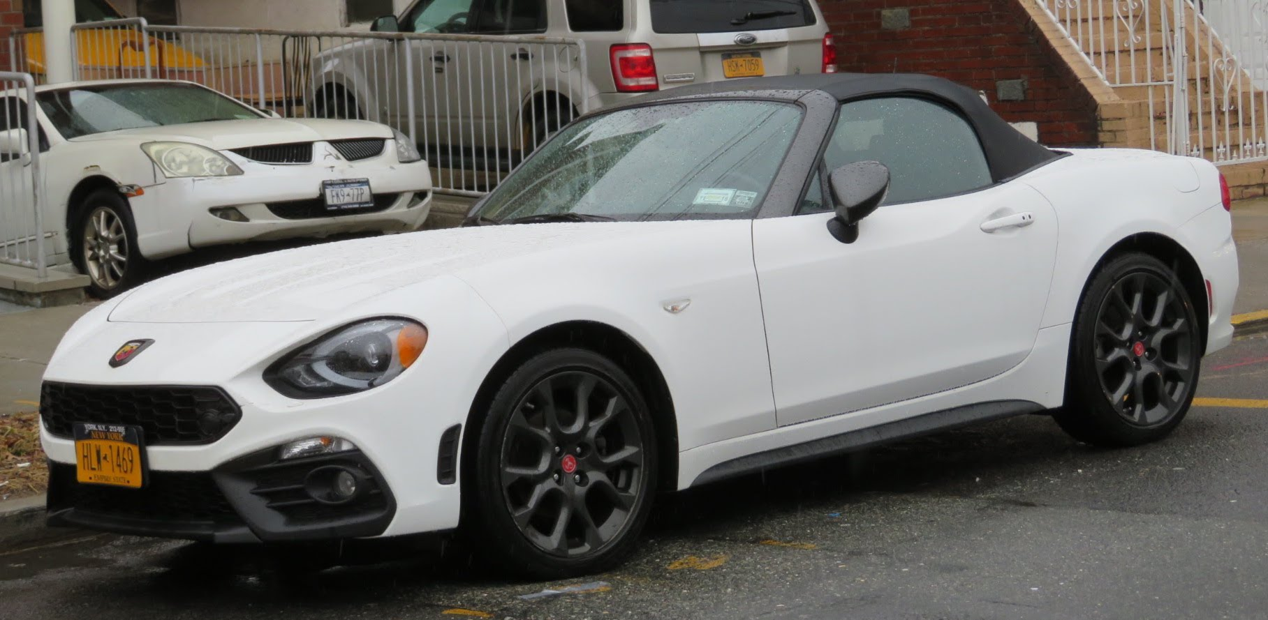 In Queens, New York.